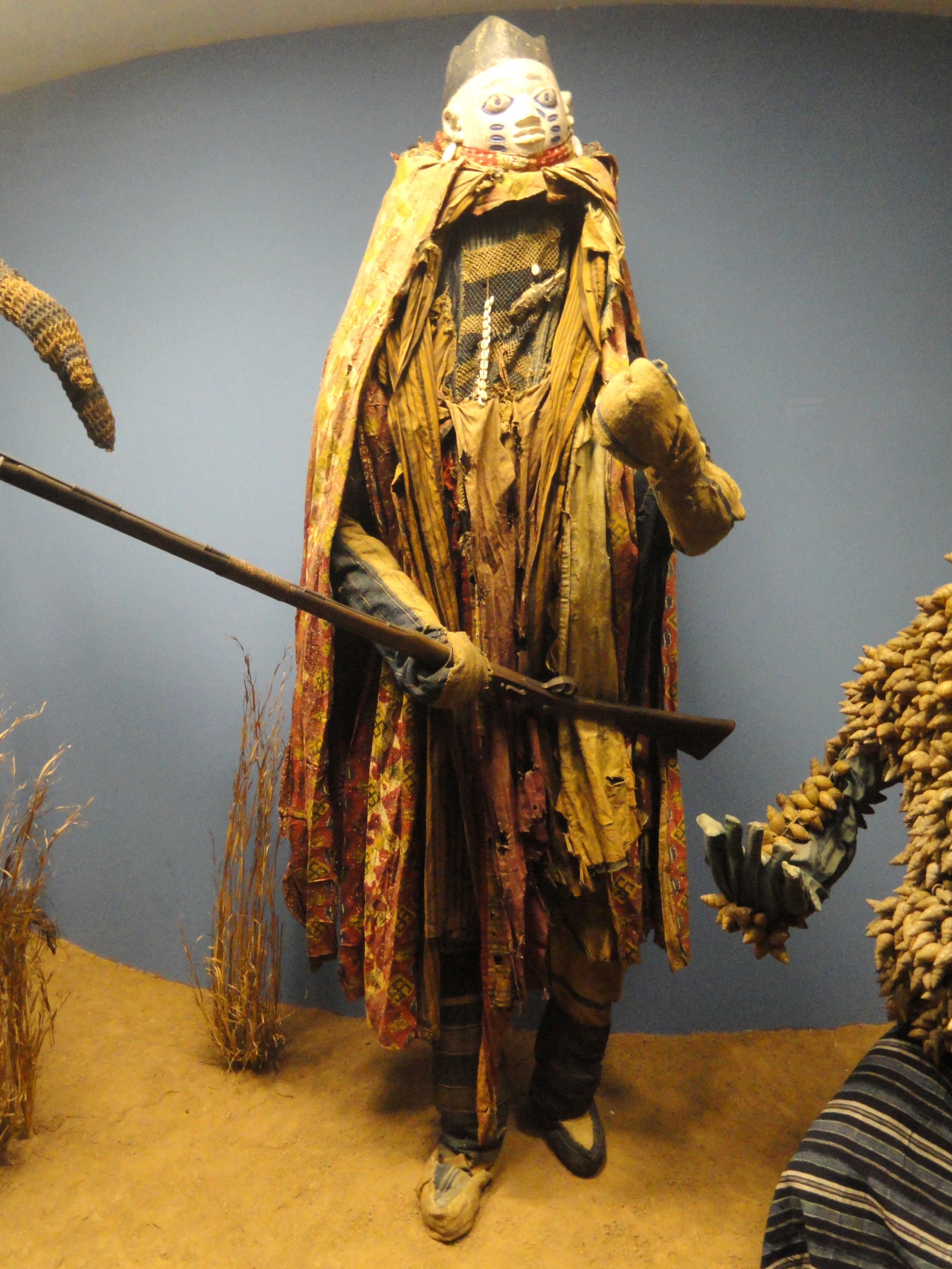 Exhibit in the African collection of the American Museum of Natural History, Manhattan, New York City, New York, USA.